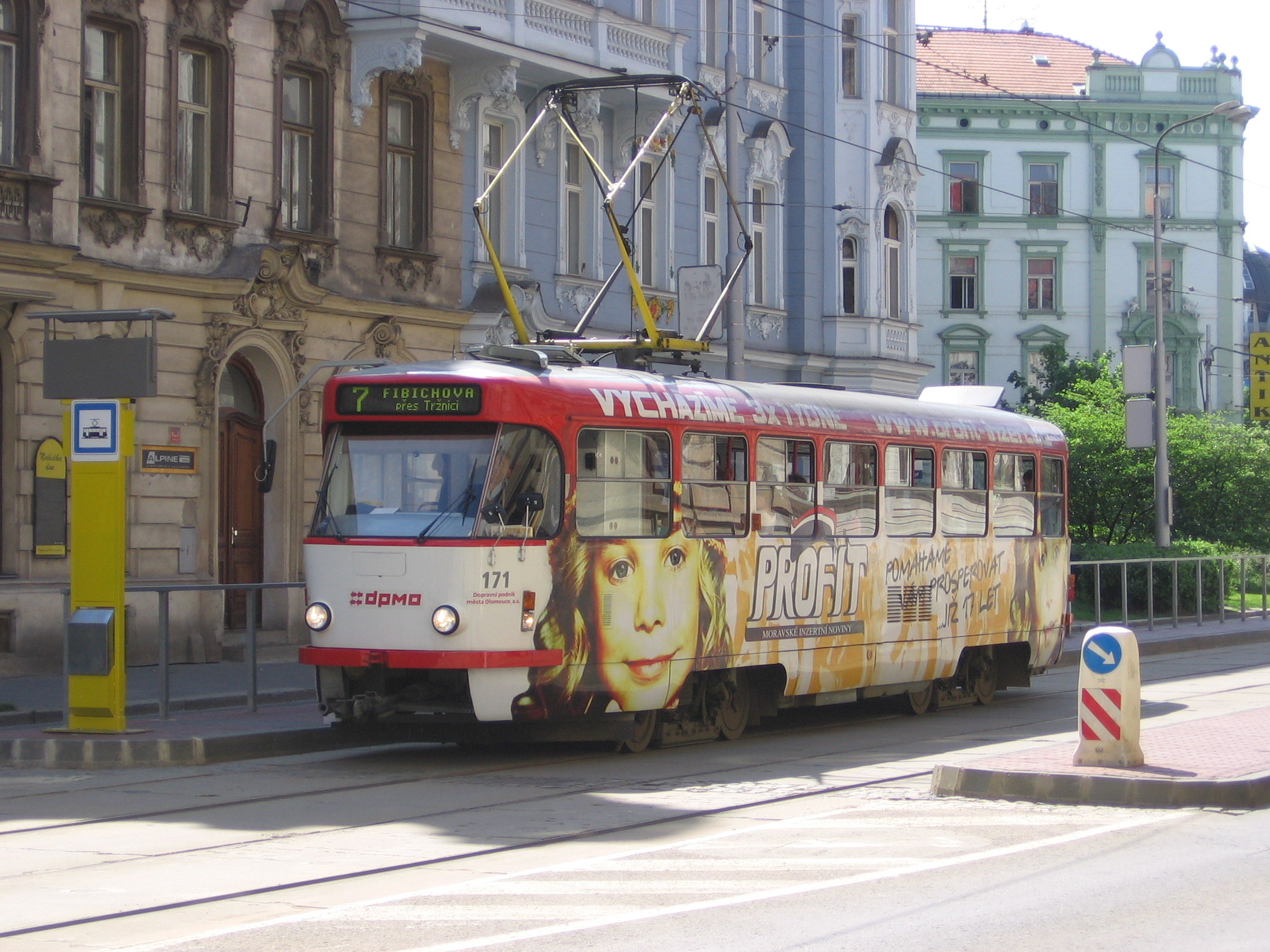 Tram ČKD Alstrom T3RP in Olomouc (Czech Republic)